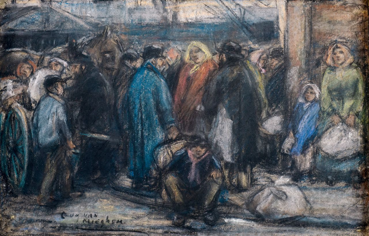 Emigrants in Montevideo Street, 1899 pastel drawing by Eugeen Van Mieghem, showing Eastern European Jews awaiting near the Red Star Line offices in Antwerp, hoping to be shipped to Ellis Island.